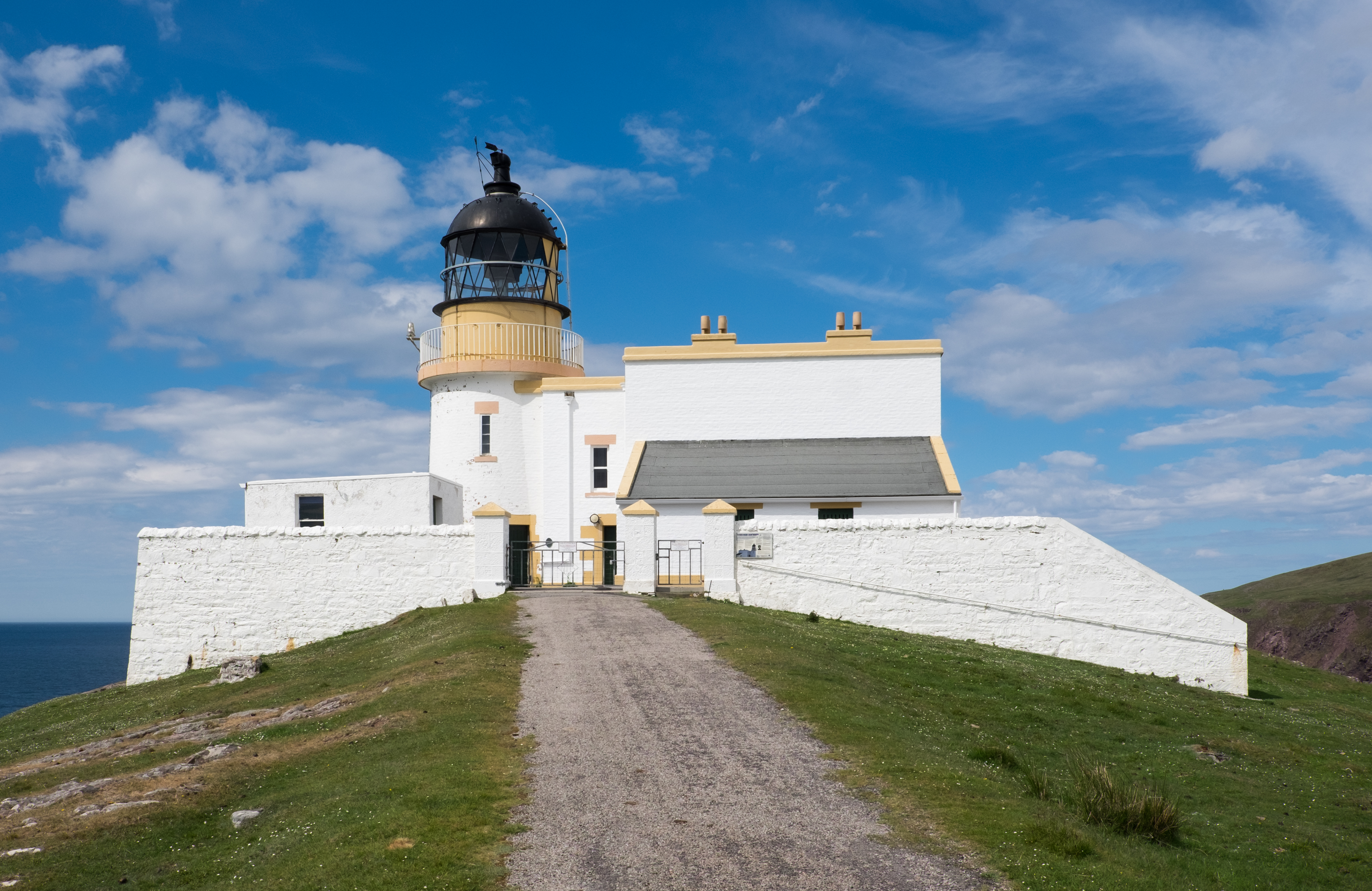 Stoer Head Lighthouse, Sutherland, North West Scotland